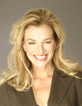 Trial attorney Anne Bremner; Legal analyst